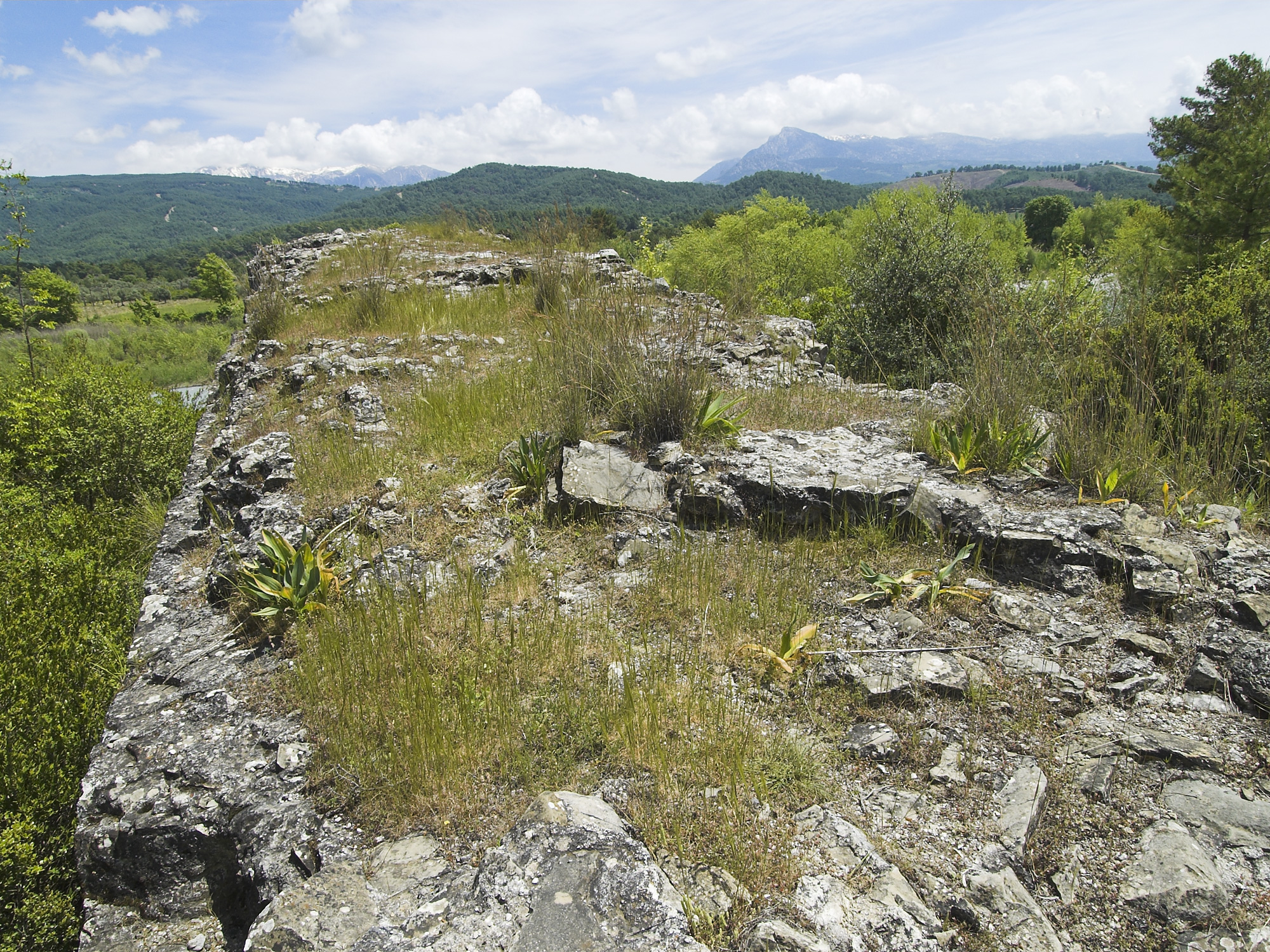 On the western ramp of the Bridge near Kemer, a Roman arch bridge over the Xanthos river (Koca Çayı) in Lycia, modern-day southwestern Turkey. The once bridged river is faintly recognizable through the Macchia.